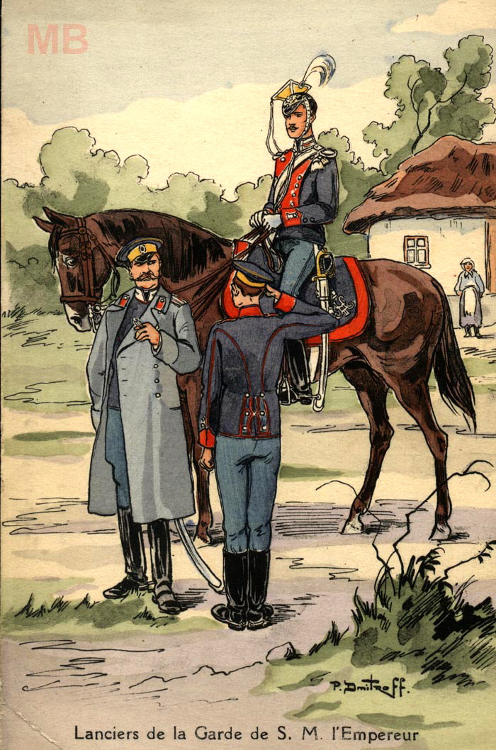 Uniform of Ulan His-Majesty Guard Regiment. 1914 Postcard.